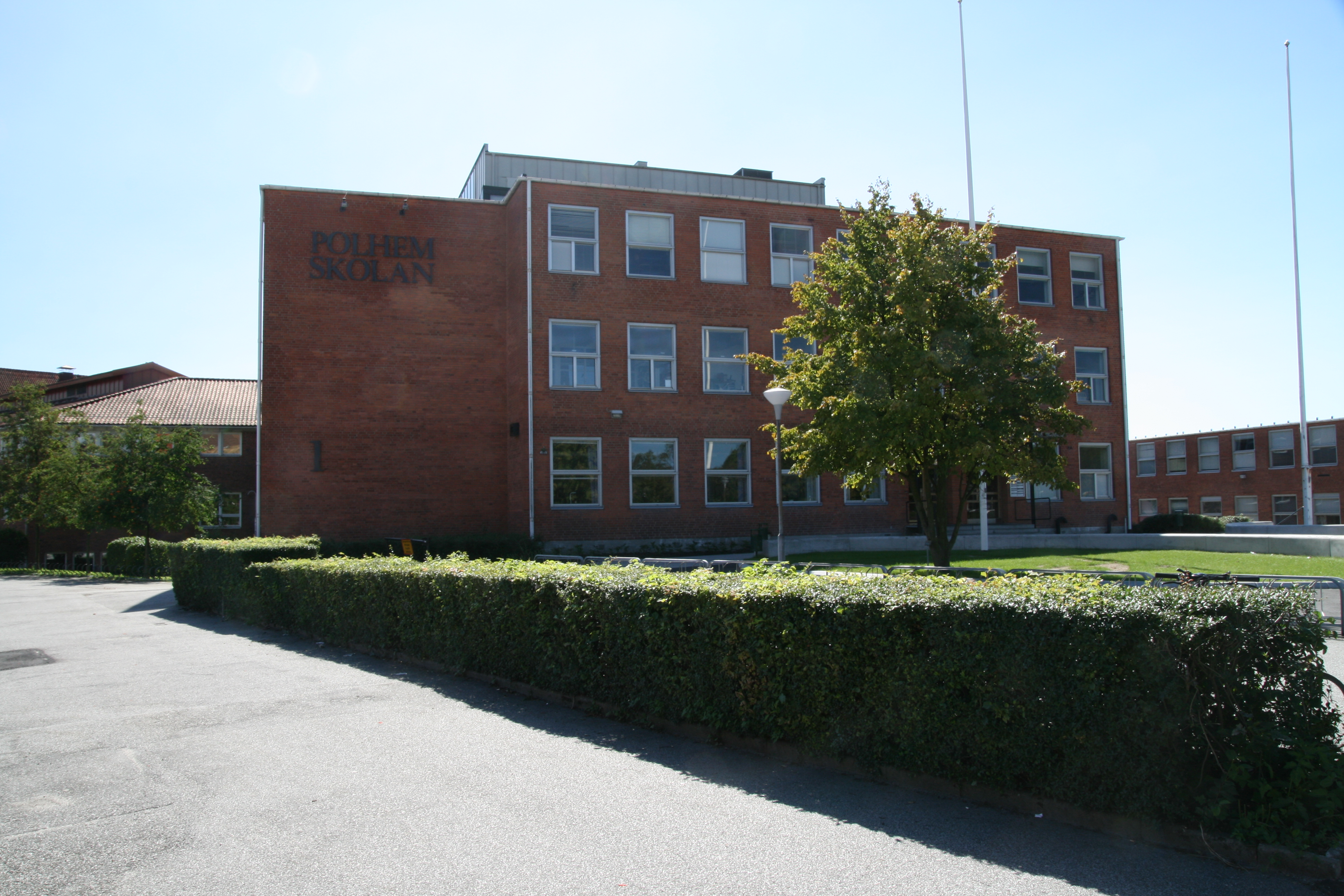 The main entrance and building 1 of the Polhemskolan high school in Lund, Sweden.